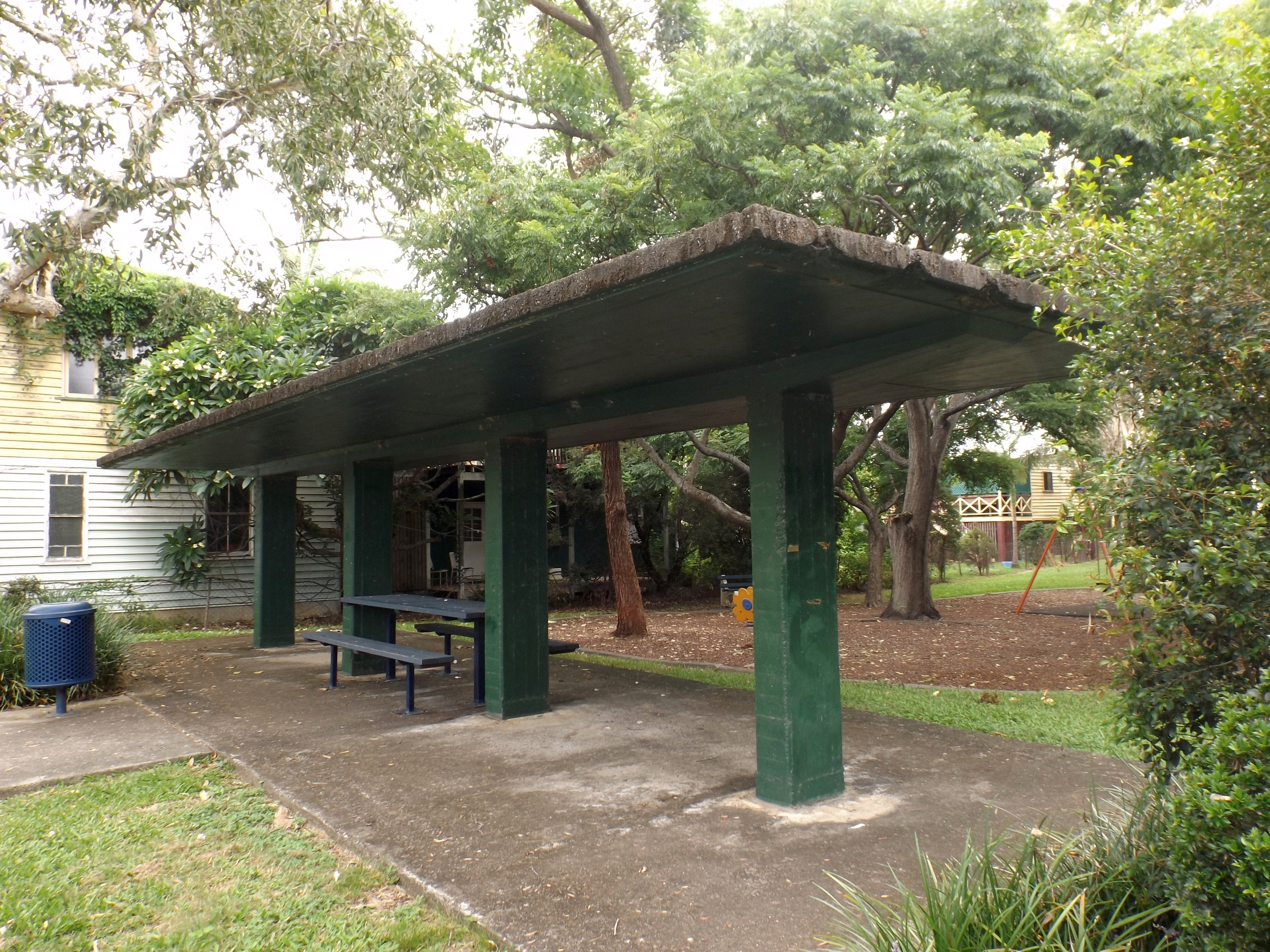 Photo of Woolloongabba Air Raid Shelter in a park at Woolloongabba, Brisbane, Queensland, Australia.